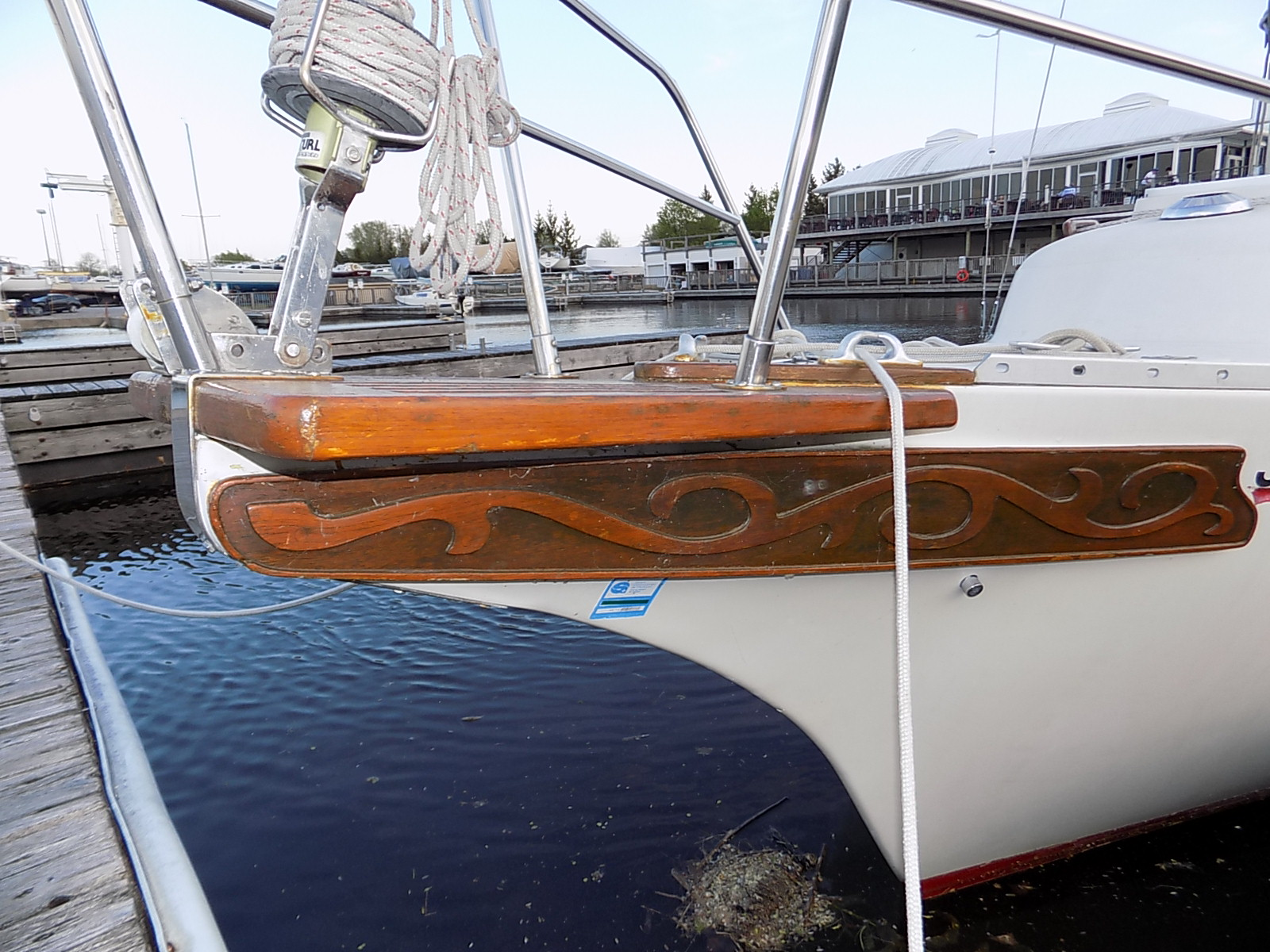 A Bayfield 25 named Pau Wow's bowsprit and trailboard detail.